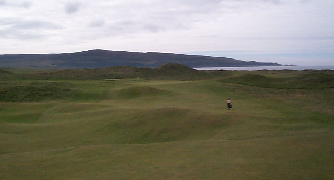 View of Machrie Golf Course on Islay off the west coast of Scotland